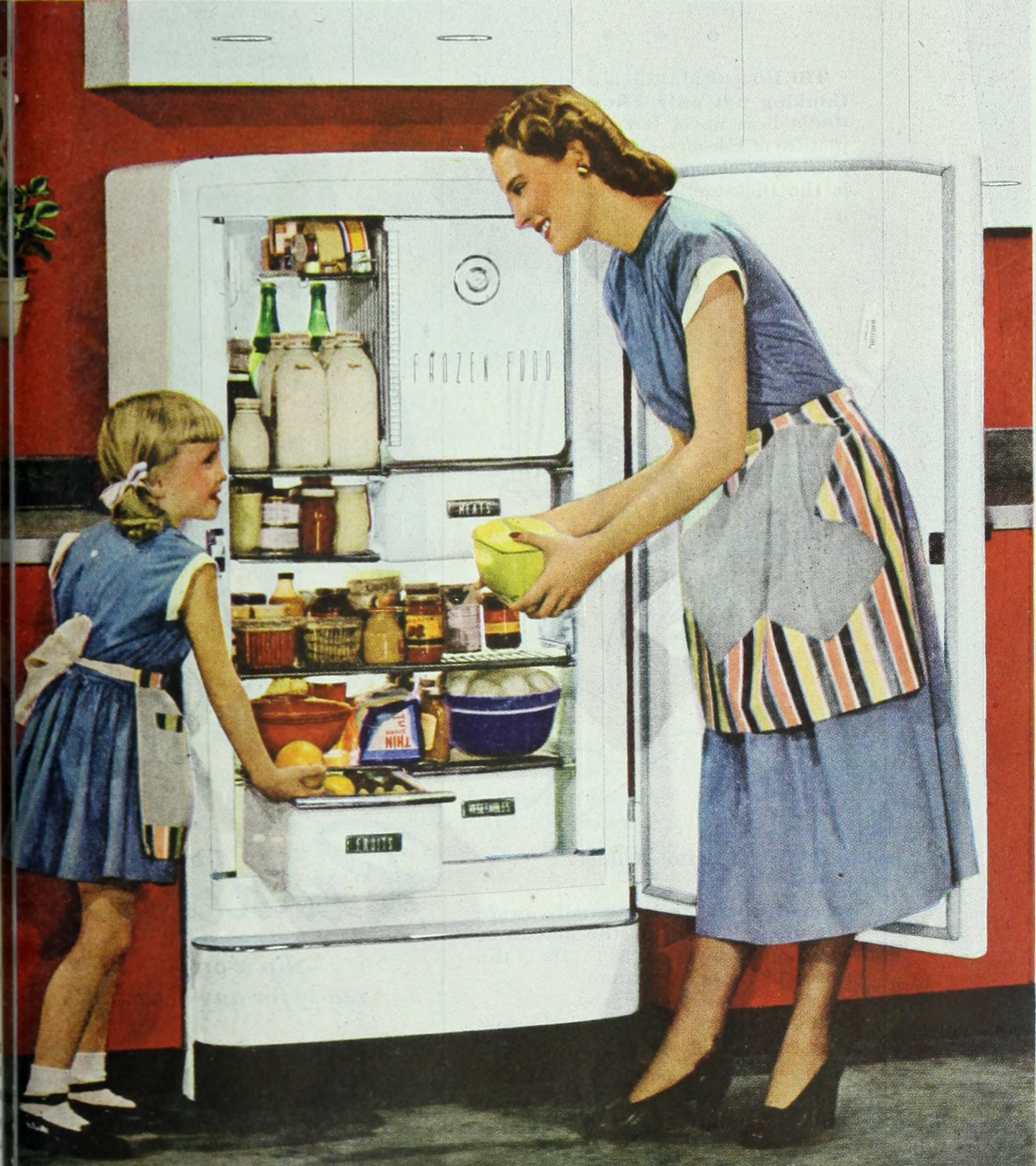 Title: The Ladies' home journal Year: 1889 (1880s) Authors: Wyeth, N. C. (Newell Convers), 1882-1945 Subjects: Women's periodicals Janice Bluestein Longone Culinary Archive Publisher: Philadelphia : (s.n.) Text Appearing Before Image: Notice how the new General Electric 8-cubic-foot Space Maker fits in the same floor space asthe old-style 6-cuhie-foot model —yet gives you one-third more refrigerated food-storage capacity! Text Appearing After Image: Important advantages! You get them allin the 1948 Space Maker! • Butter Conditioner—keeps butter at right spreading temper-ature. • Big Freezing Compartment— holds 2 1 packages of frozen food,plus I ice trays. • Deep Drawers—6 inches deep. \\ ill hold standing roasts andmore than two-thirds bushel of fruits and vegetables underrefrigeration. • Bottle Storage Space — holds 12 square, quart-size milk bot-tles, also tallest bottles. • Insulation—more than three inches of most efficient insulation keeps operating cost down. • Sealed-in compressor mechanism—more compact, mor,efficient, more economical than ever. Let your General Electric retailer show you the wonderful1948 Space Maker Refrigerators. In the line are three 8-cubic-foot models and two 10-cubic-foot models. General ElectricCompany, Bridgeport 2. Conn.